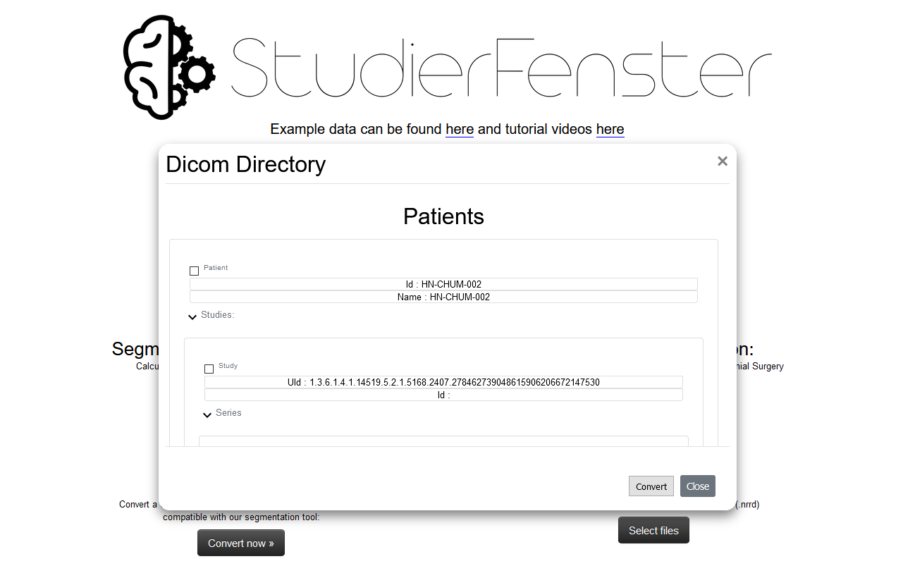 The “Dicom Browser” of Studierfenster allows parsing a local folder with DICOM (Digital Imaging and Communications in Medicine) files. Afterwards, the whole folder can be converted to compressed .Nrrd (nearly raw raster data) files and downloaded as a single .zip file. Nrrd is a library and file format for the representation and processing of n-dimensional raster data. It is intended to support scientific visualization and (medical) image processing applications. With the “Dicom Browser” of Studierfenster, is also possible to select specific Studies or Series, and only convert these. The compressed .Nrrd format has been choosen, because it contains only the image data. All patient DICOM tags are removed in this format. The compressed .Nnrrd files can then be opened with the “Medical 3D Viewer” of Studierfenster, for a visualization of the medical image data in 2D, 3D and for further processing. Furthermore, the “Dicom Browser” of Studierfenster is completely client-sided, which means that no data from the user is transferred to our server during the conversion.